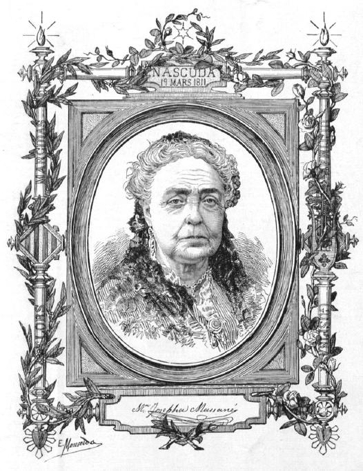 Maria Josepa Massanés i Dalmau as seen by Enric Monserdà, in La Llumanera de Nova York magazine of March 1879